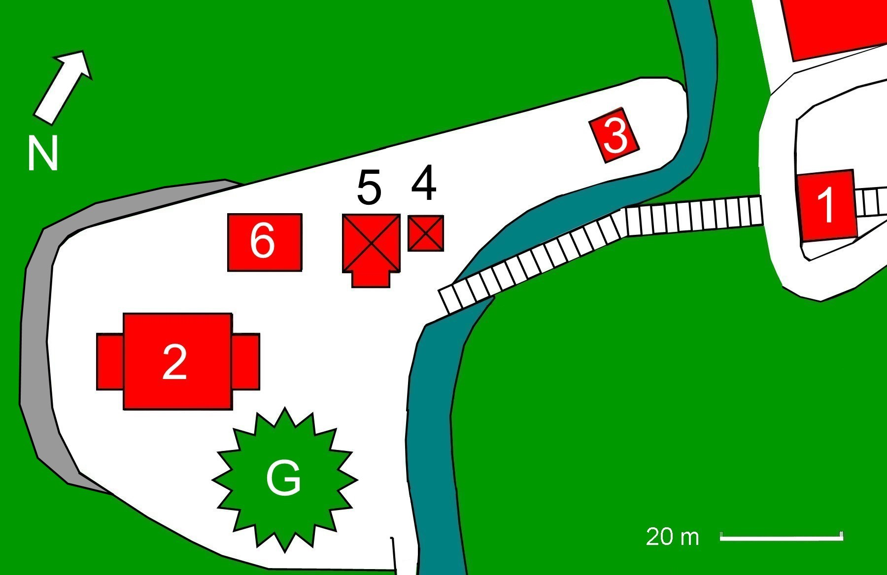 Layout of Shôbô-ji (Higashimatsuyama)